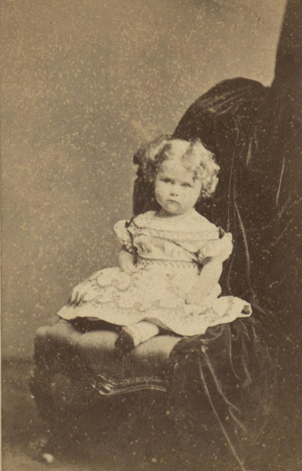 A portrait from the Welsh Portrait Collection at the National Library of Wales. Depicted person: Ruth Lewis – British philanthropist